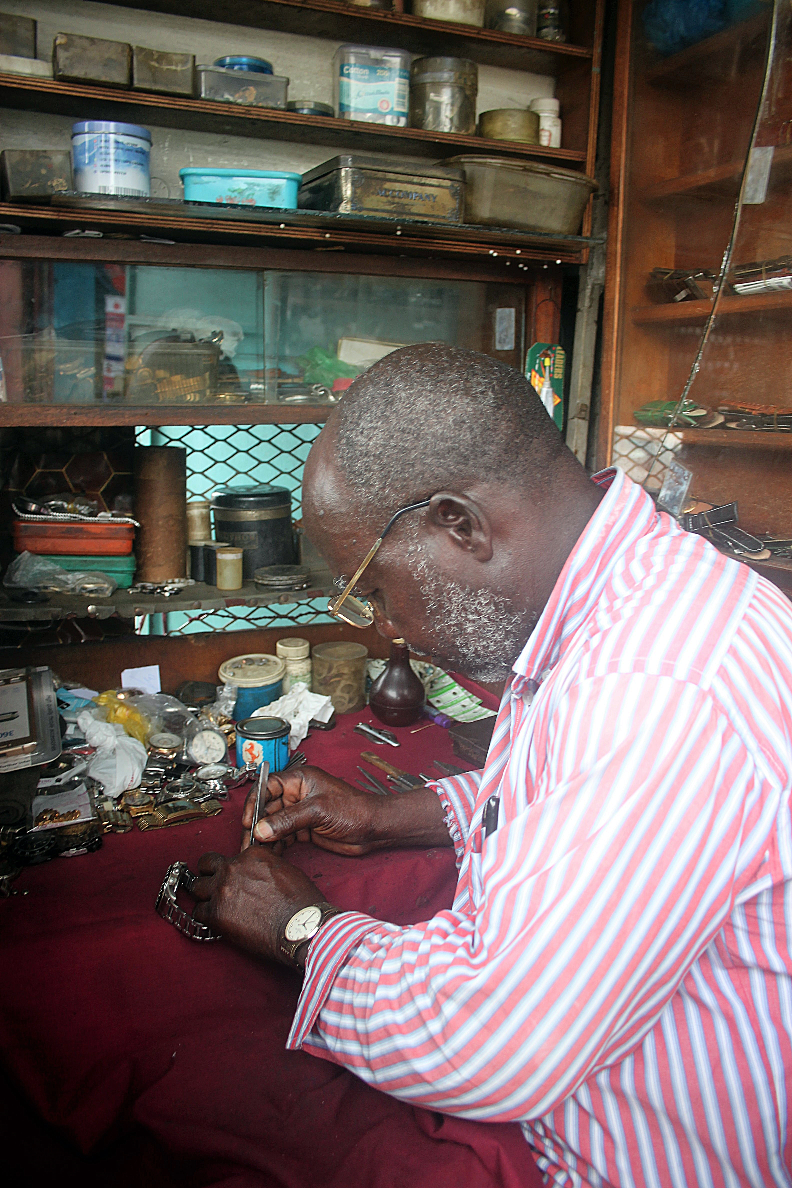 Réparation d'une montre par un Horloger au carrefour Léon Mba à Libreville. This is an image of "African people at work" from Gabon